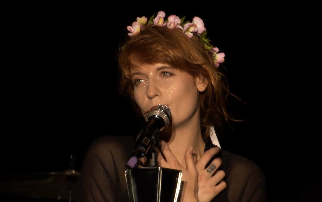 Florence Welch of Florence and the Machine performing at Coke Live 2013 in Kraków, Poland